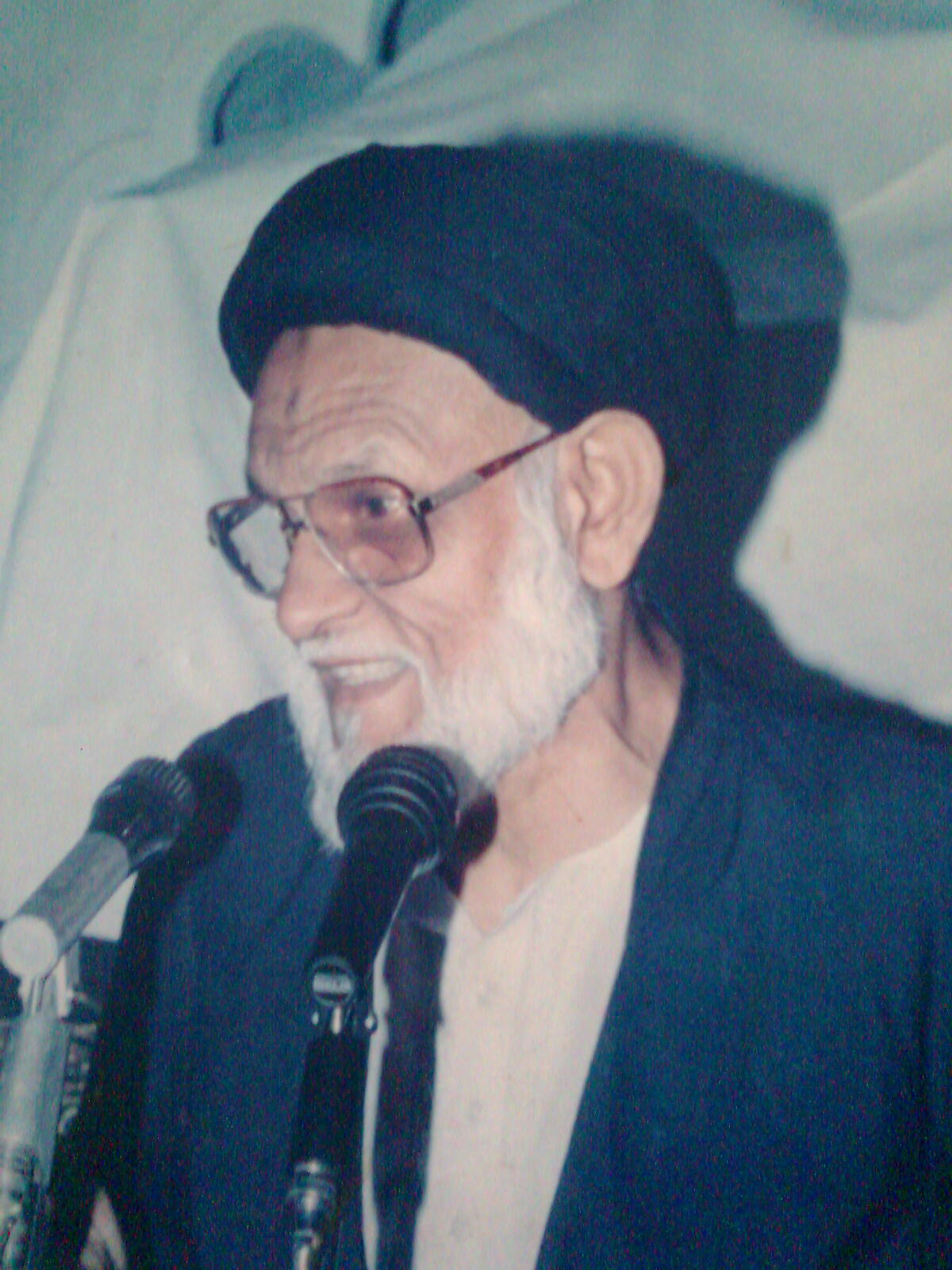 Majlis being addressed by Moulana Syed Hasan Naqvi